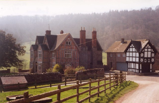 Butthouse, King's Pyon. The gatehouse is dated 1632. The house is also 17C, extended in the 19C.